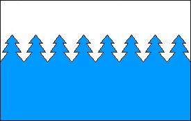 Flag of Räpina Parish, Põlva County, Estonia.